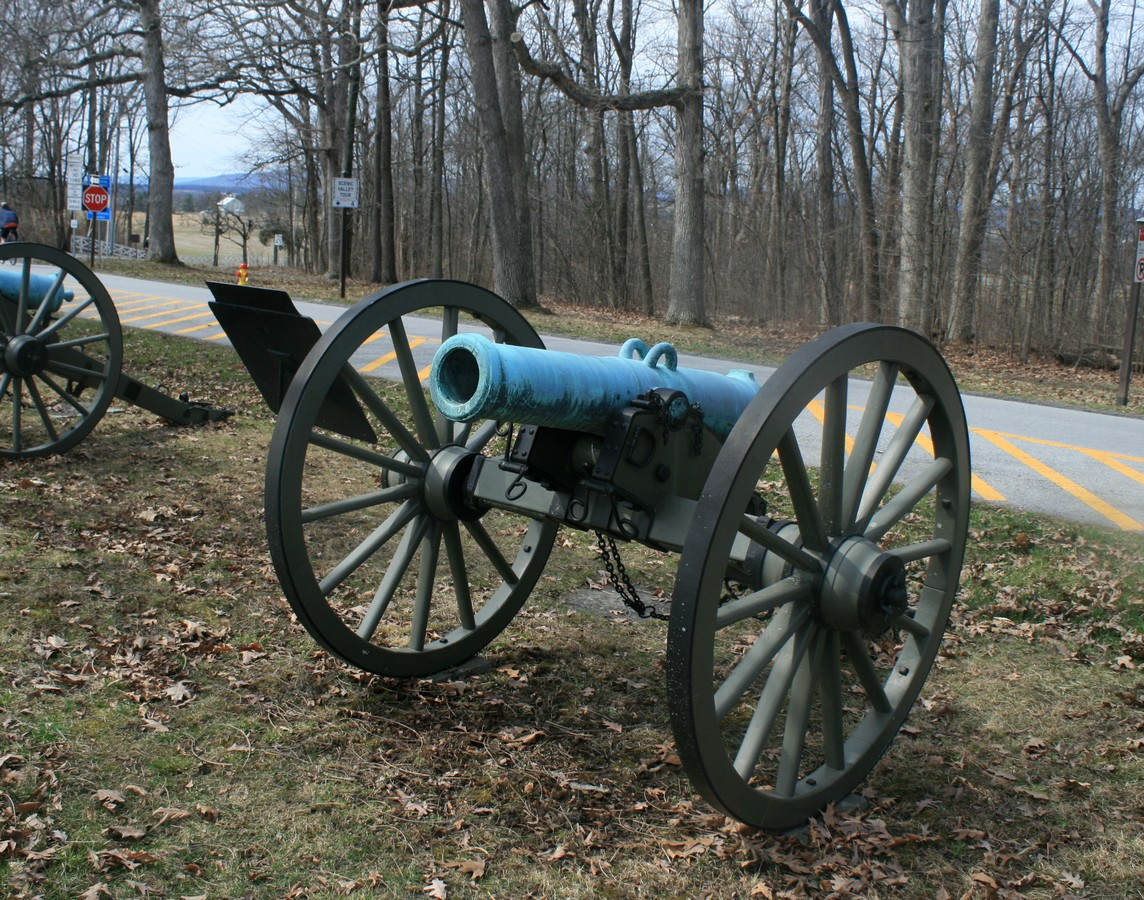 Gettysburg, 24-pounder Howitzers, Longstreet's corps artillery reserve, Madison Light artillery (CSA).